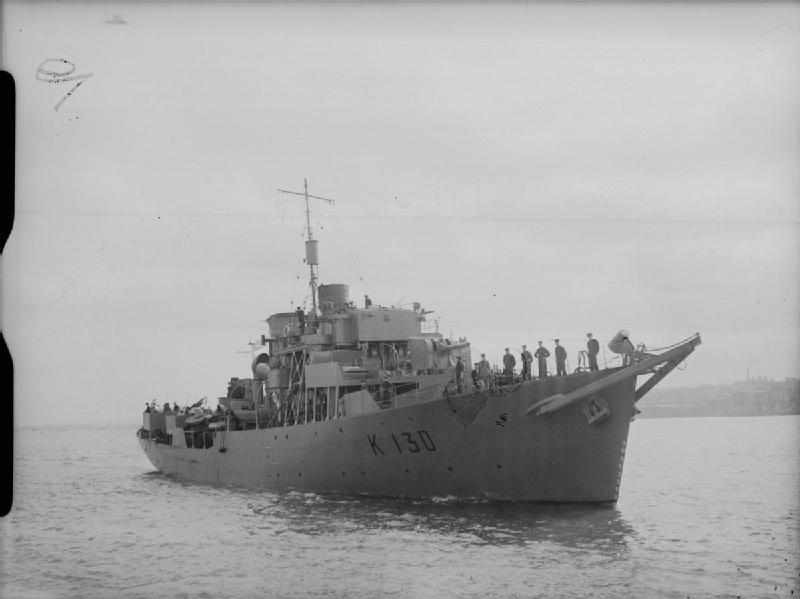 British Flower class corvette HMS LOTUS underway at Tilbury.